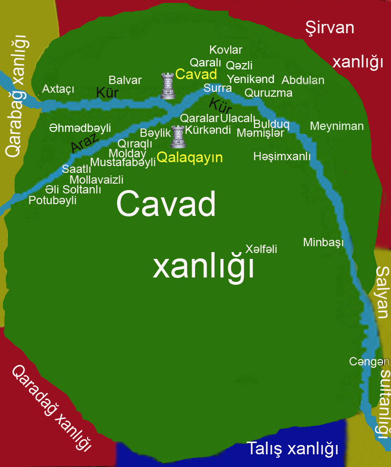 It was situated in the territory of present Azerbaijan Republic between Karabakh khanate and Shamakhi khanate and Salyan sultanate. Javad khanate was established in 1747. The center was Cavad castle. Territories of Northern and Southern Khanates (and Sultanates) of Azerbaijan in 18th-19th centuries Based on the original sources: 1."Frontier nomads of Iran: a political and social history of the Shahsevan" Author: Richard Tapper Cambridge University Press, 1997 ISBN 0 521 58336 5 hardback 2."Russian Azerbaijan, 1905-1920: The shaping of national identity in a muslim community" Author: Tadeusz Swietochowski Cambridge University Press, 1985 ISBN 0 521 26310 7 hardback ISBN 0 521 52245 5 paperback 3."Russia and Iran, 1780-1828" Author: Muriel Atkin University of Minnesota Press, 1980 ISBN 0 8166 0924 1